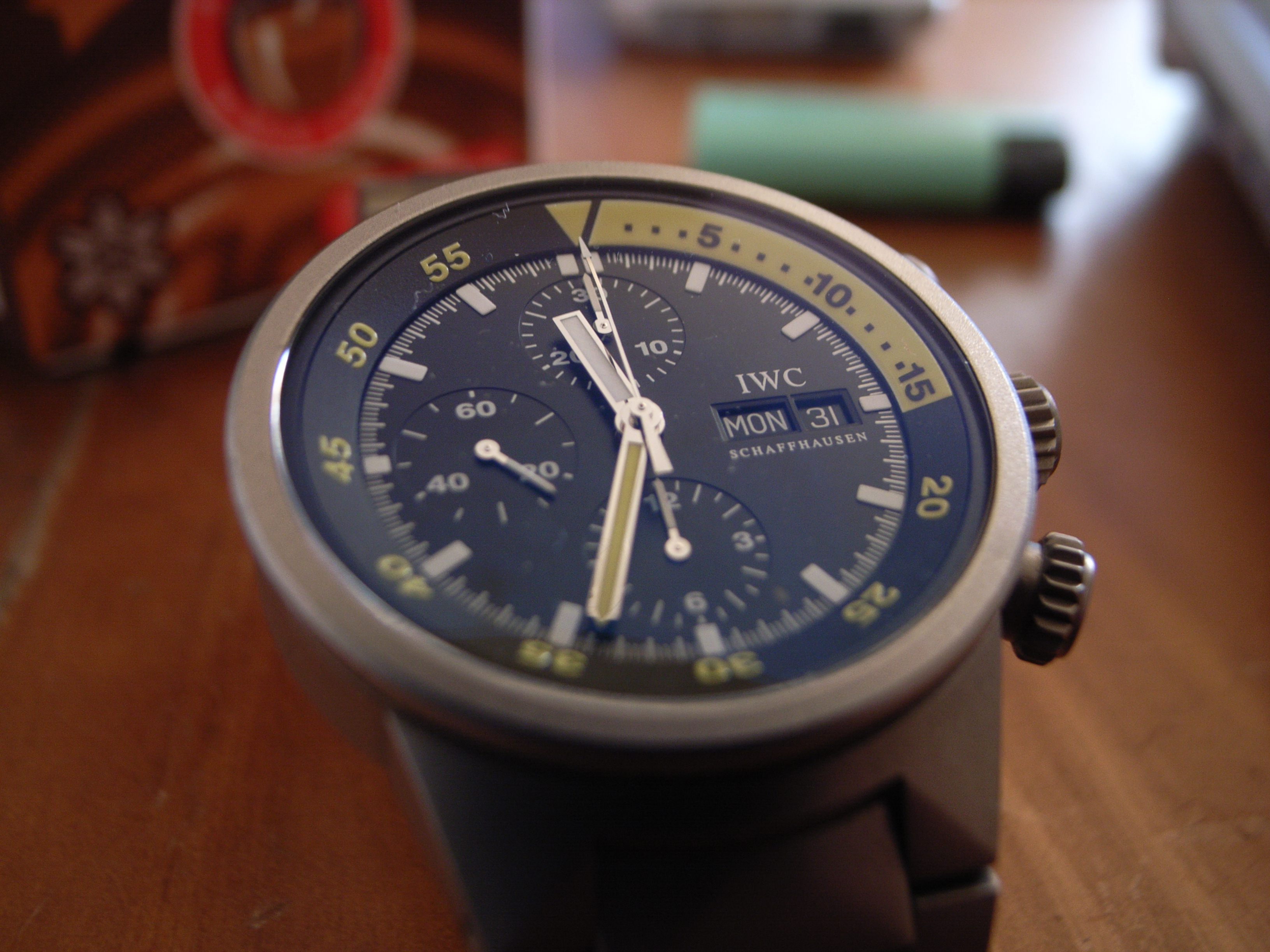 IWC Aquatimer